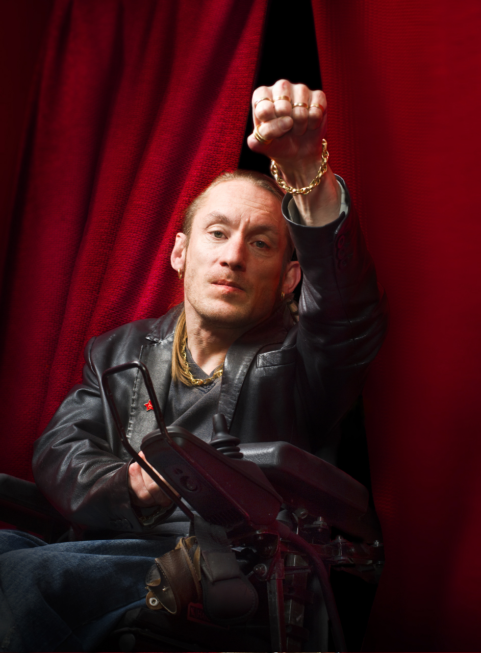 Jesper Odelberg